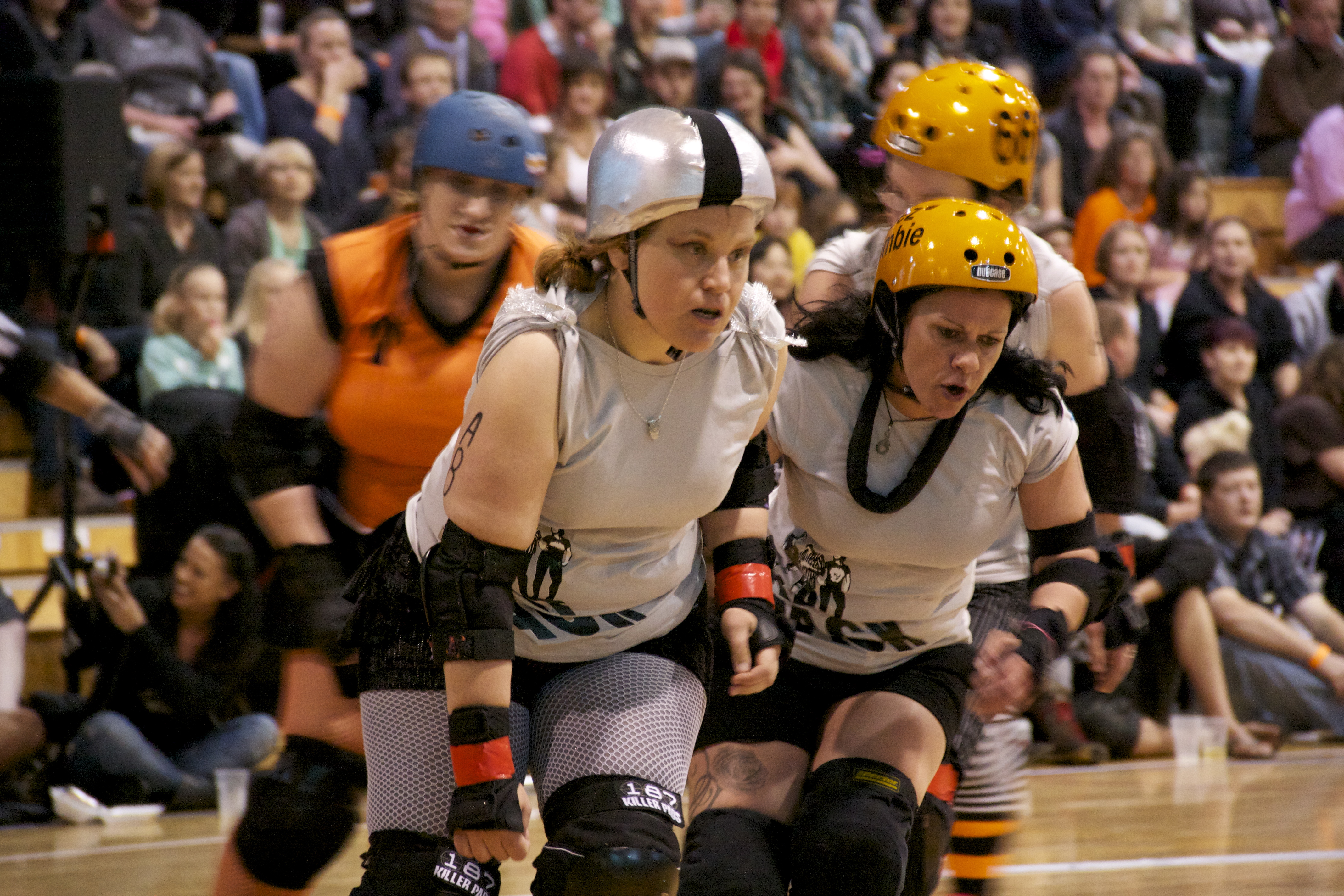 Roller derby in Hobart on November 27, 2010. Hobart's Convict City Rollers (in orange) take on Ballarat's 'Rat Pack (in white). Led by their pivot, Ballarat appear to be dominating a fast pack.